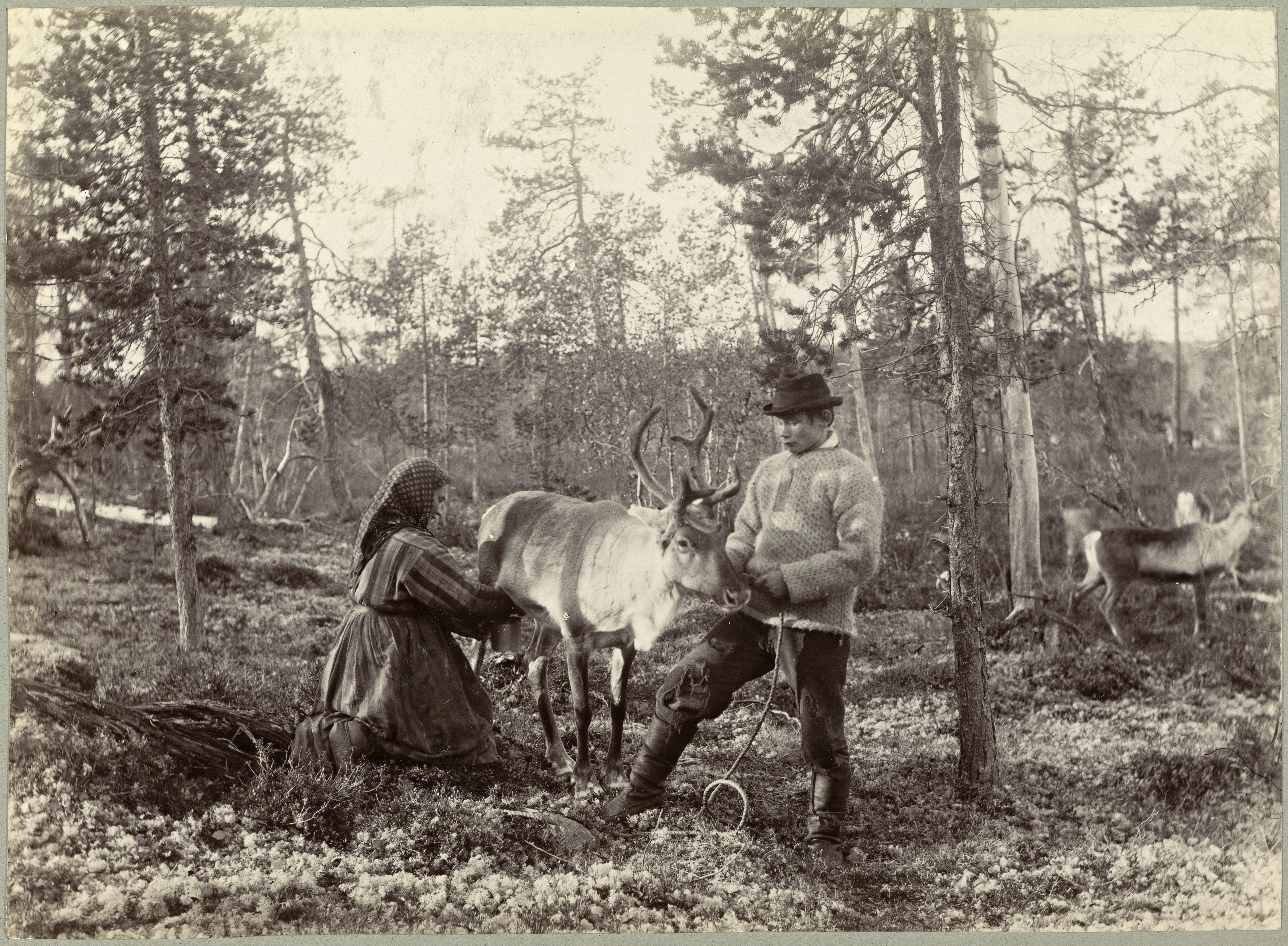 Beskrivelse / Description: Originalen stammer fra et album eid av lektor og geolog Adolf Larsen Dal (1863-1948). Dato / Date: ca. 1890-1900 Sted / Place: Finnmark Fotograf / Photographer: Ellisif Wessel (1866-1949) Digital kopi av original / Digital copy of original: s/h papirpositiv Eier / Owner Institution: Nasjonalbiblioteket / National Library of Norway Lenke / Link: Bildesignatur / Image Number: blds_07576